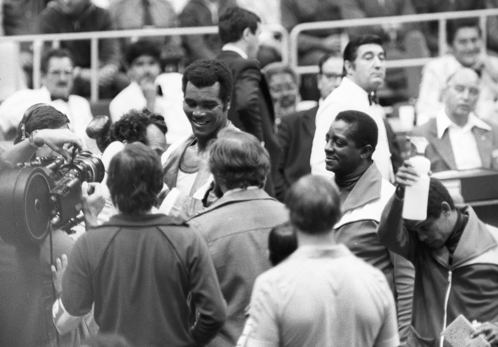 “Boxer Teofilo Stevenson talks with journalist”. Cuban boxer Teofilo Stevenson, 1980 Olympic Champion, talking with journalists during the 22nd Summer Olympic Games held in Moscow.